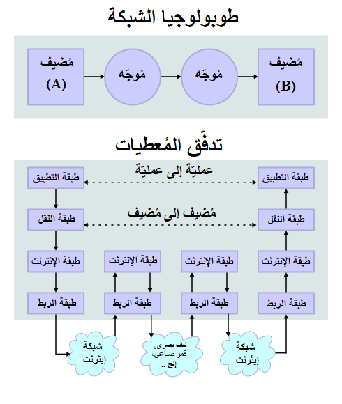 Operation of the Internet Protocol suite between two Internet hosts connected via two routers (top) and the corresponding layers of the IP suite in use at each hop (bottom). All hosts use the Internet Layer to route packets to next hop solely based on the IP address while only the hosts need the upper layers to send or receive application data. At the Transport Layer and Application Layer the hosts can be said to have virtual connections between them (if using a connection-oriented transport protocol), but with peer-to-peer, the other layers will only know about the next-hop neighbor.